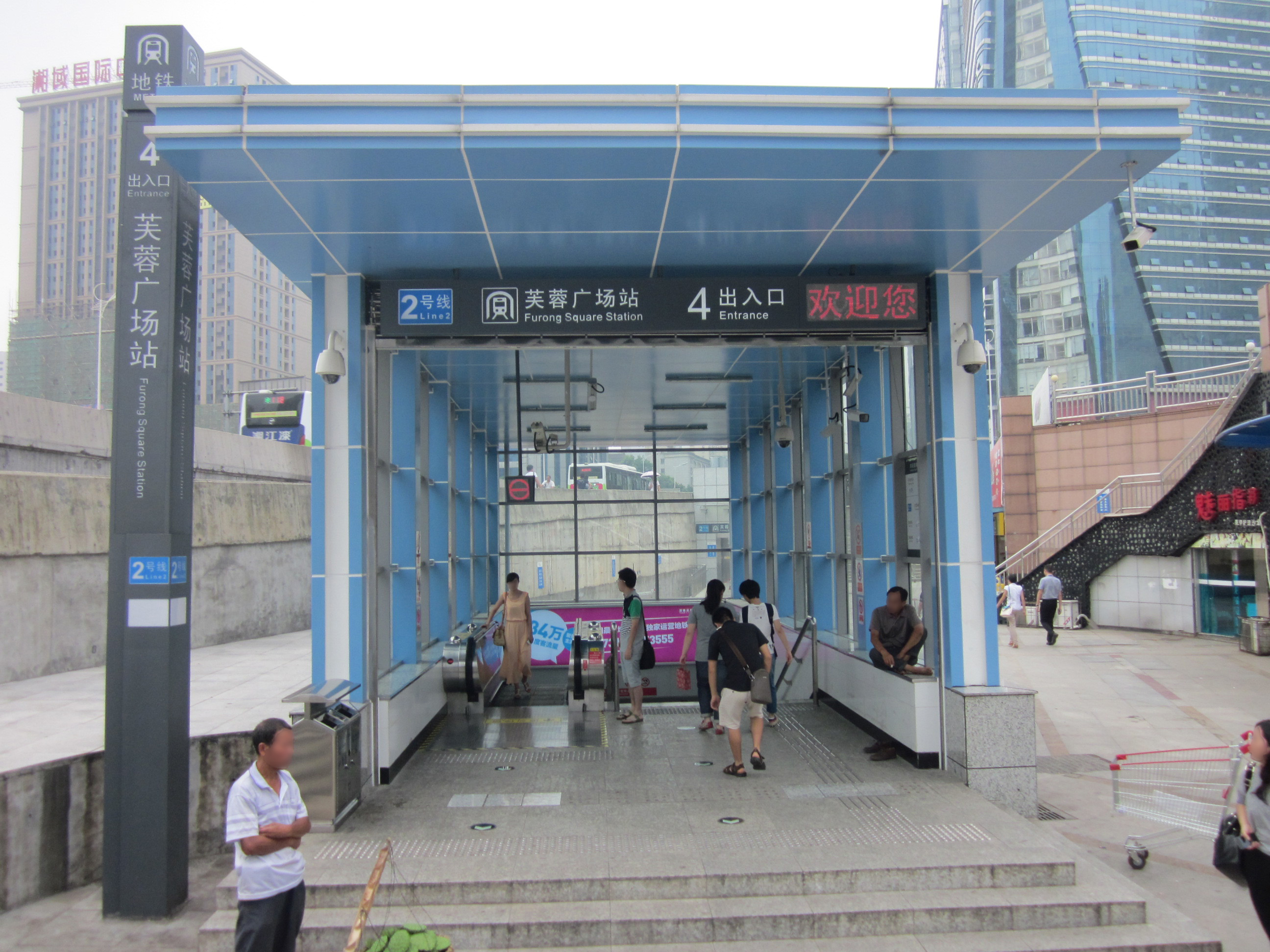 Furong Square Station (Chinese: 芙蓉广场站).